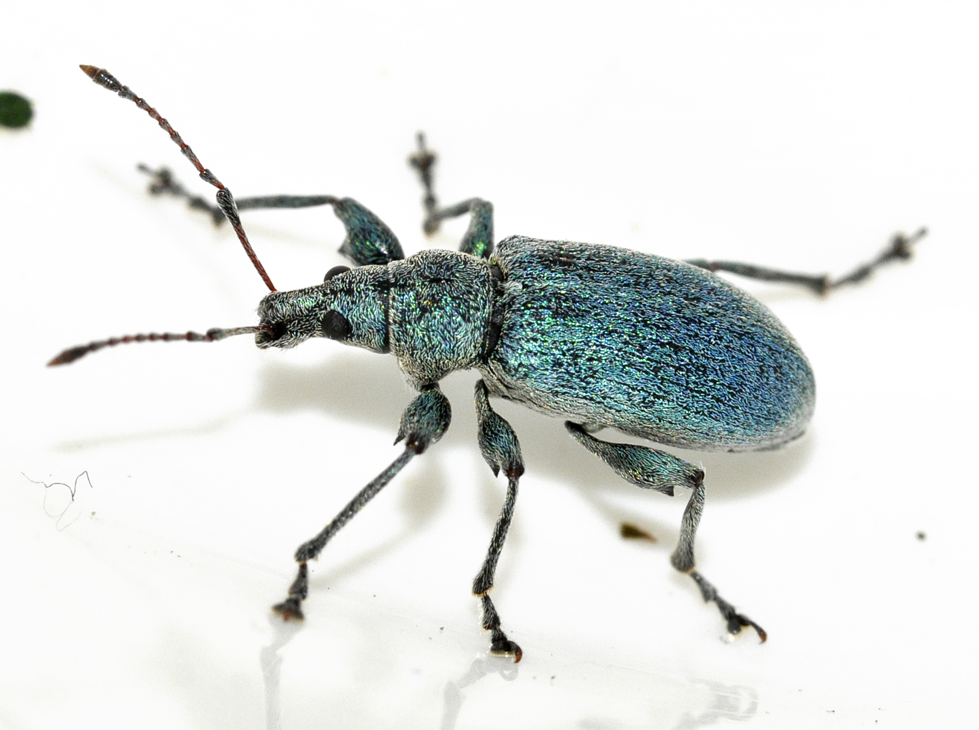 Phyllobius pomaceus Gyllenhal, 1834. Body length 7.6 mm. Germany: Niedersachsen, Landkreis Hildesheim, Limmer near Alfeld/Leine.